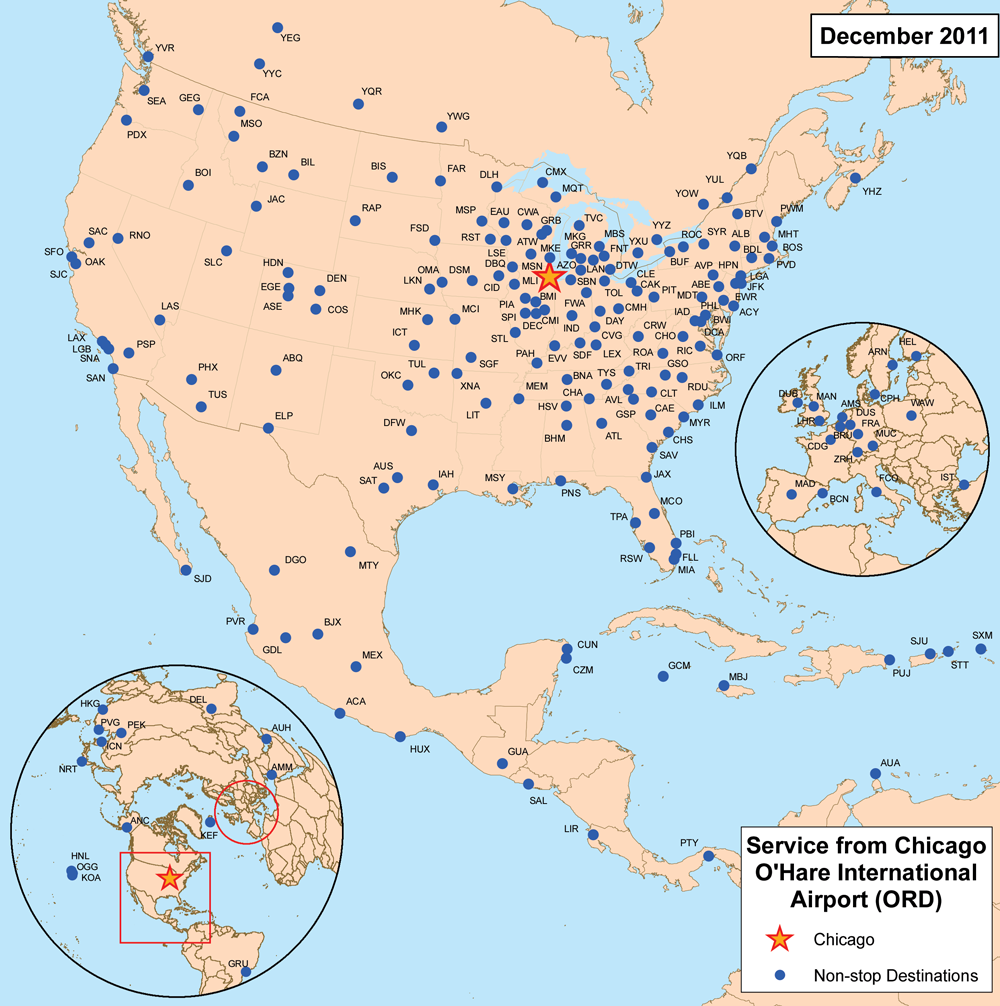 This is a route map for Chicago O'Hare International Airport as of June 2007. Map is an Azimuthal equidistant projection centered on the airport so straight lines from Chicago are along great circle routes. Data source was individual airline websites.